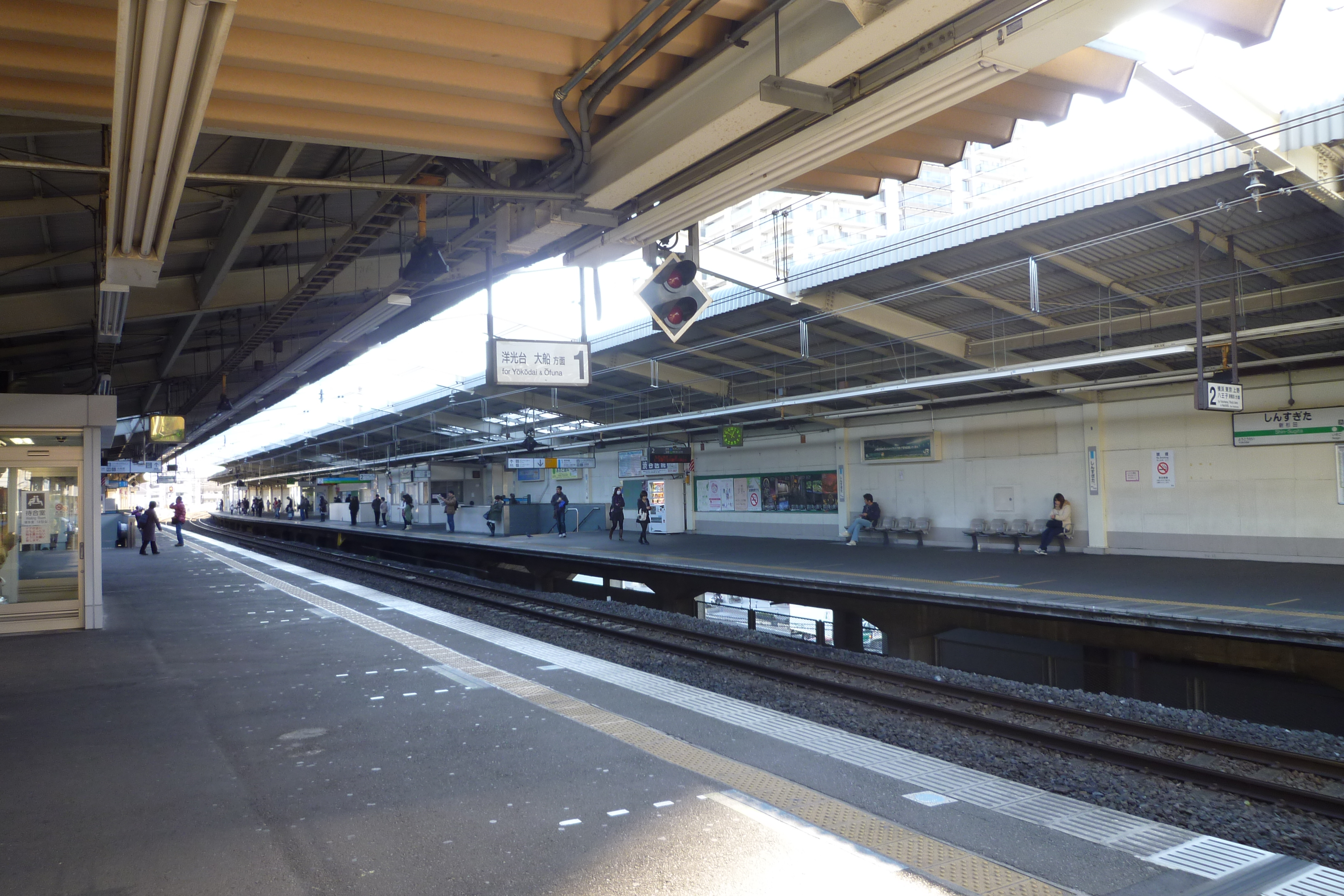 Shin-Sugita station on Keihin-Tōhoku Line